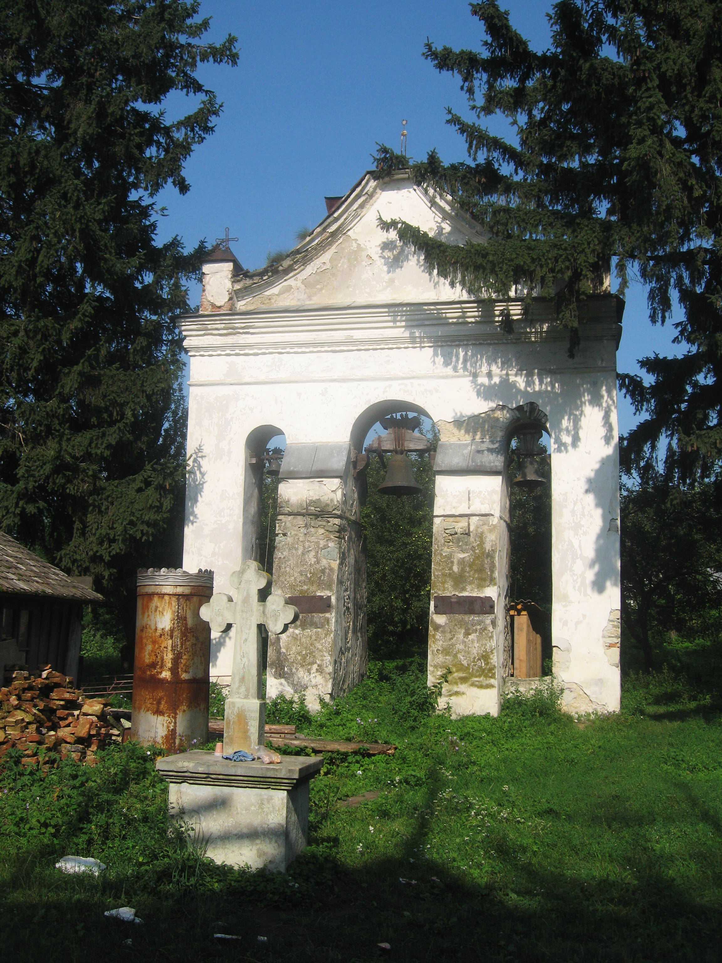 Biserica Pogorarea Sf. Duh din Horodniceni, 1539 02